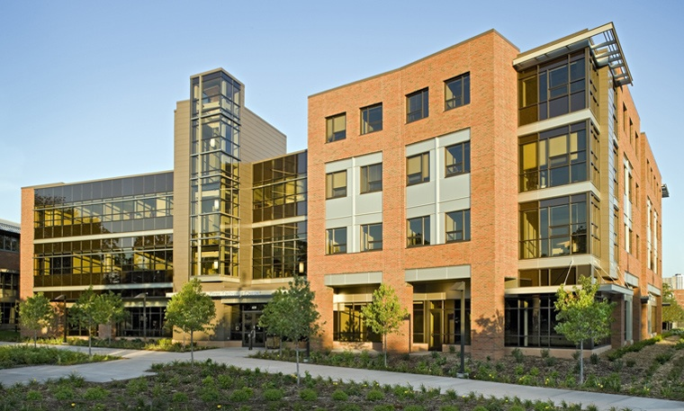 Oren Gateway Center of Augsburg College